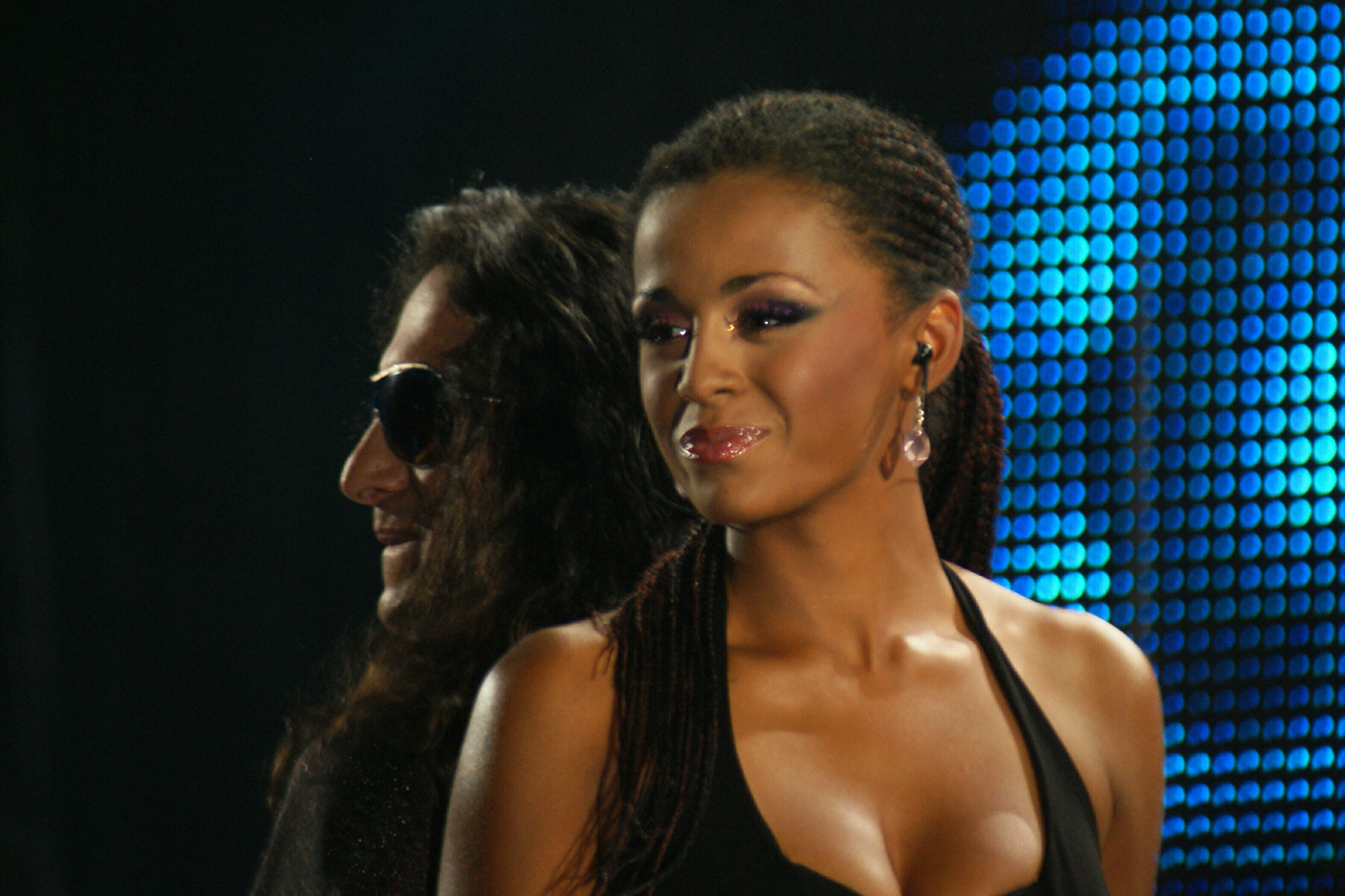 Marco Bocchino & Ola Szwed at Piosenka dla Europy 2009